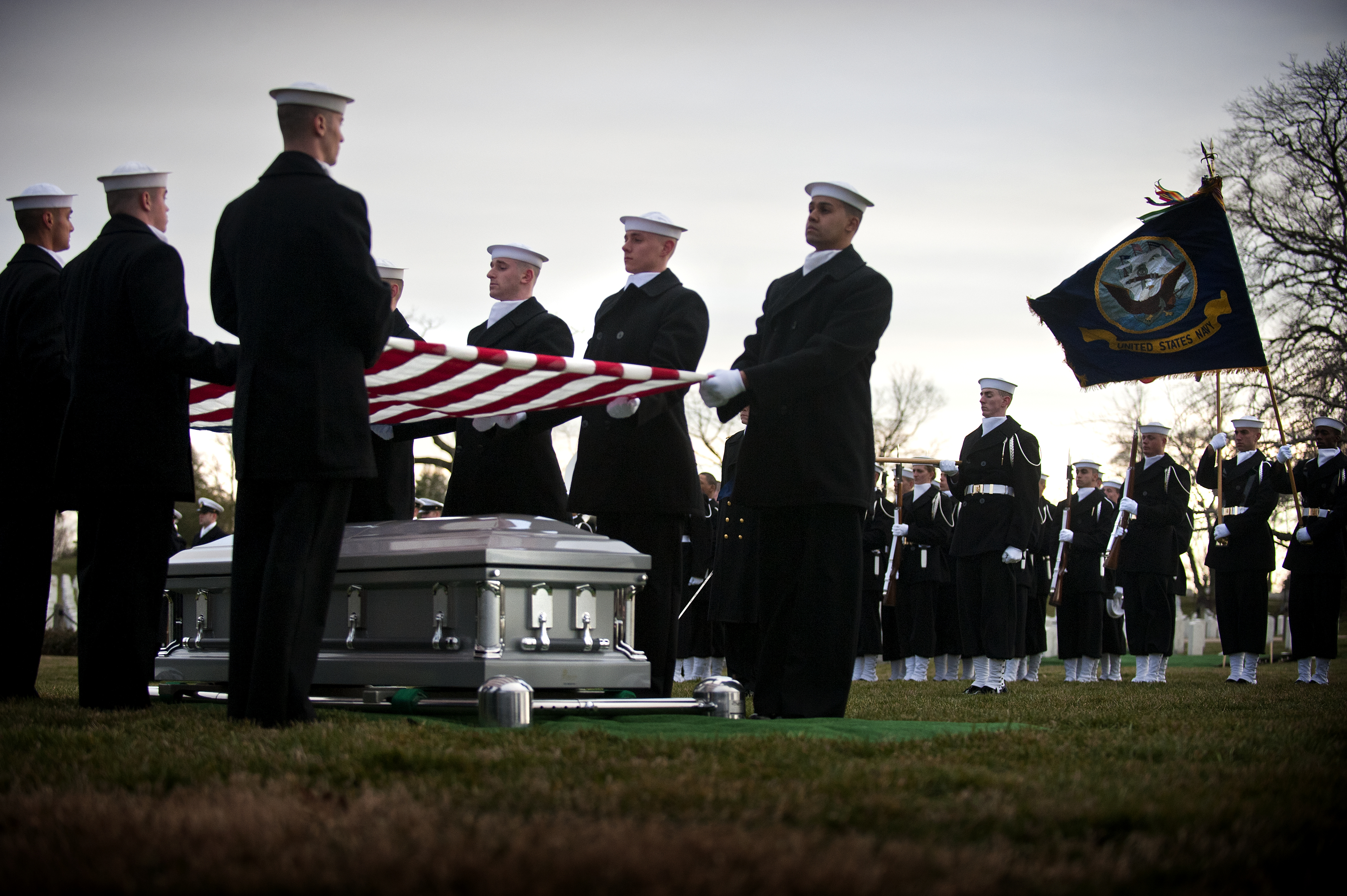 ARLINGTON, Va. (March 8, 2013) Two Sailors recovered from the ironclad USS Monitor are buried at Arlington National Cemetery. Monitor sank off Cape Hatteras, N.C., in 1862. The Sailors are being interred with full military honors. U.S. Navy photo by Mass Communication Specialist 2nd Class Todd Frantom/Released) 130308-N-MG658-801 Join the conversation navylive.dodlive.mil